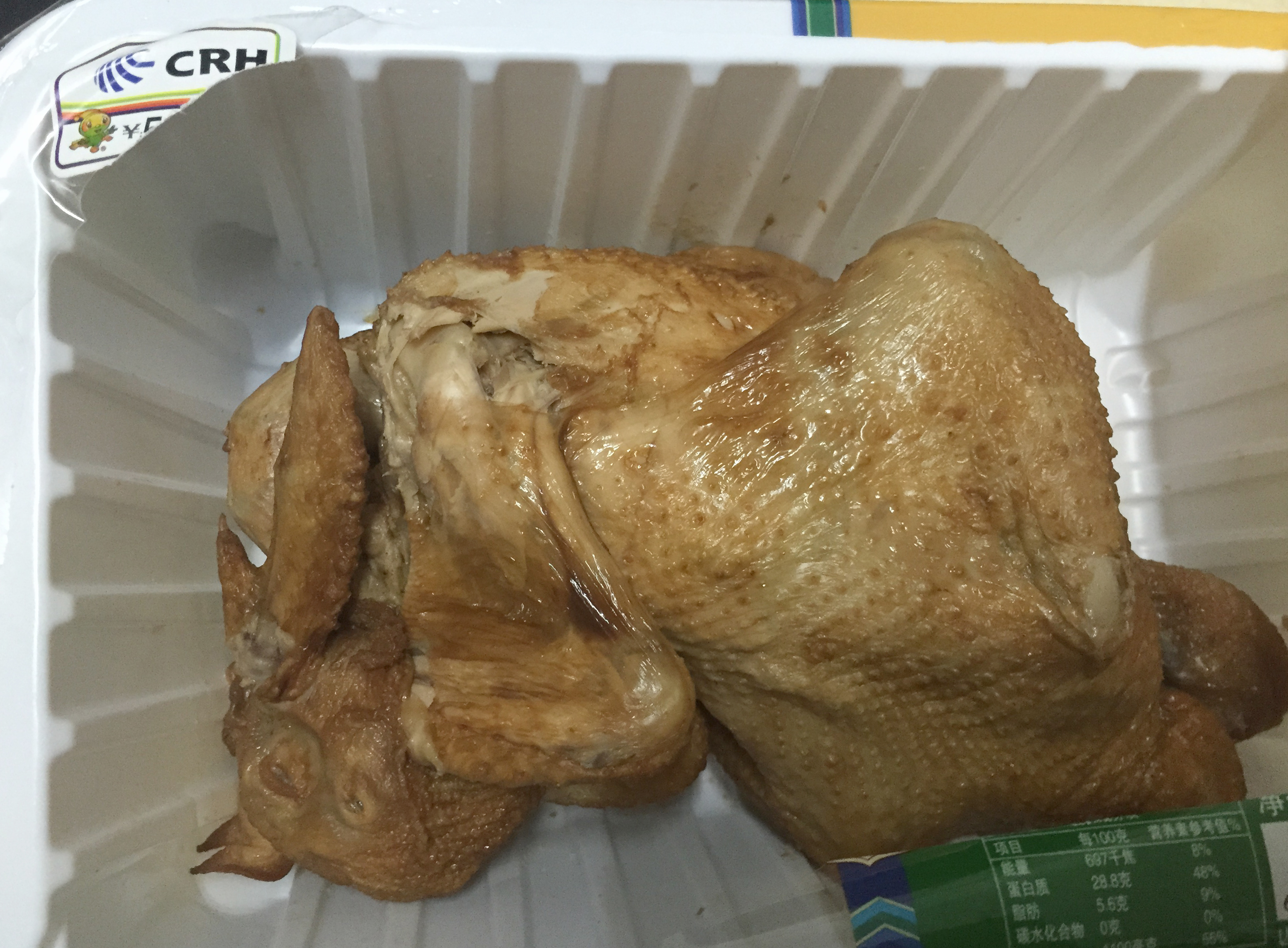 Sold at Beijing South Railway Station for 58 (note the remaining portion of price tag). My roommate would call it a "Texan chicken" just because of this famous pun: the name of Dezhou is the same as the abbreviation of the Chinese name for the U.S. state of Texas.